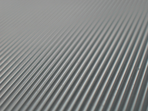 Lenticular raster lens - is an array of magnifying lenses